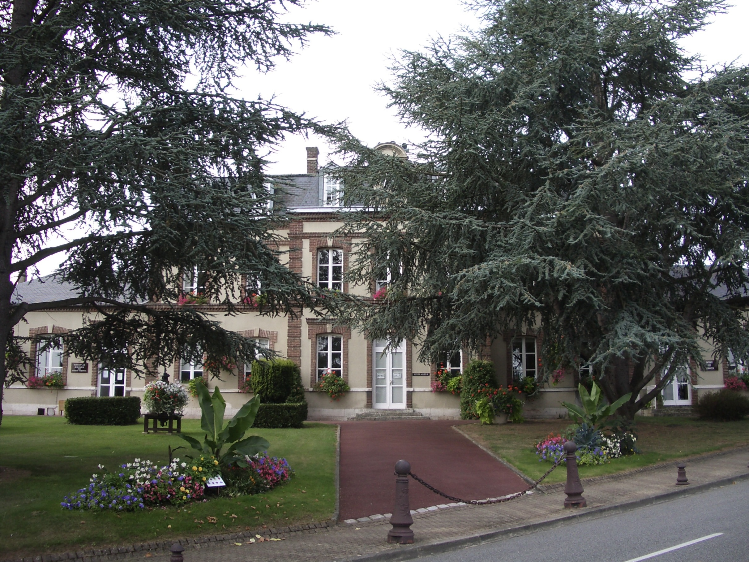 City hall Saint-Marcel (Eure)